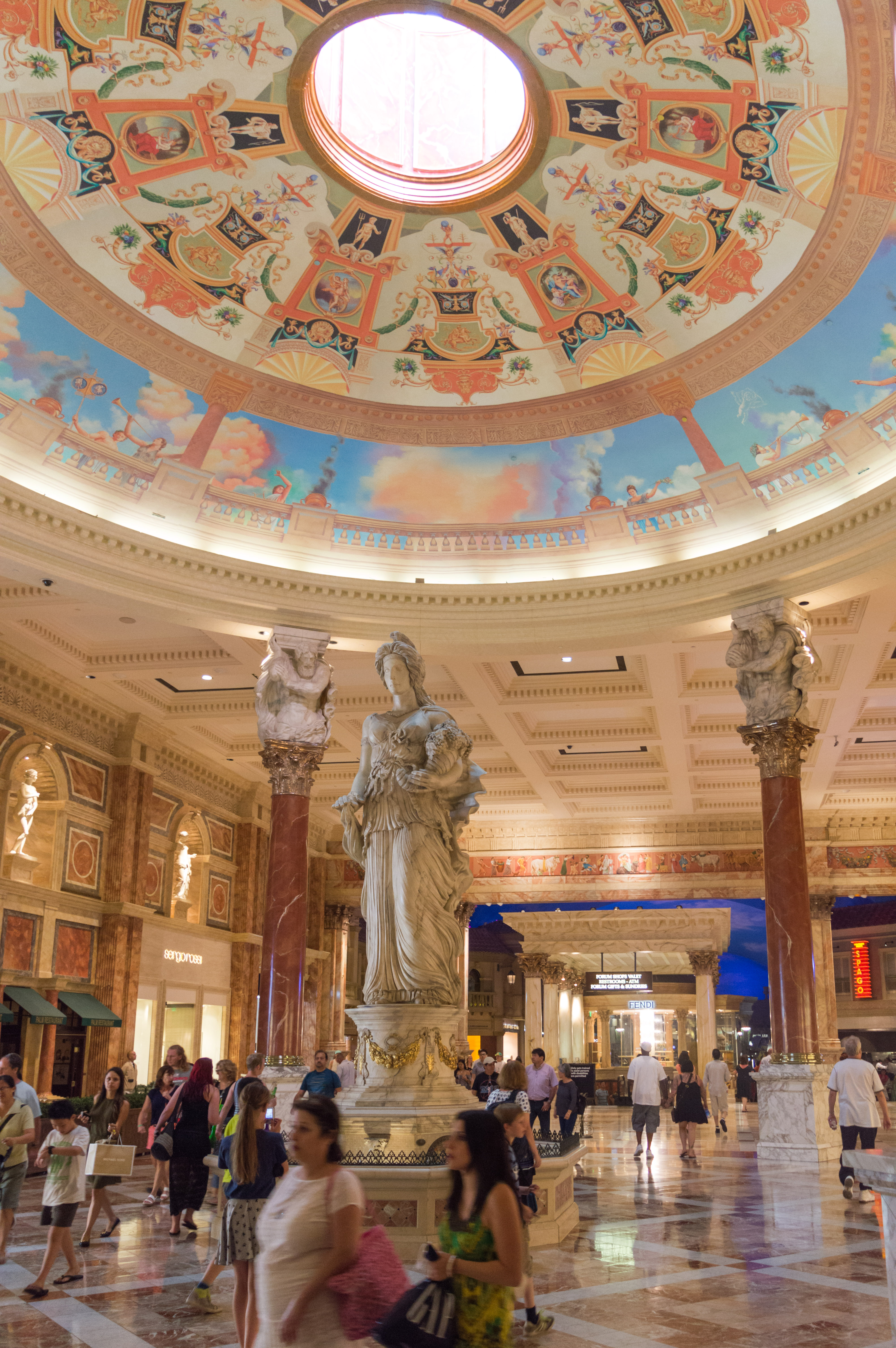 The hallway between the casino part and The Forum Shops at Caesars Palace in Las Vegas.